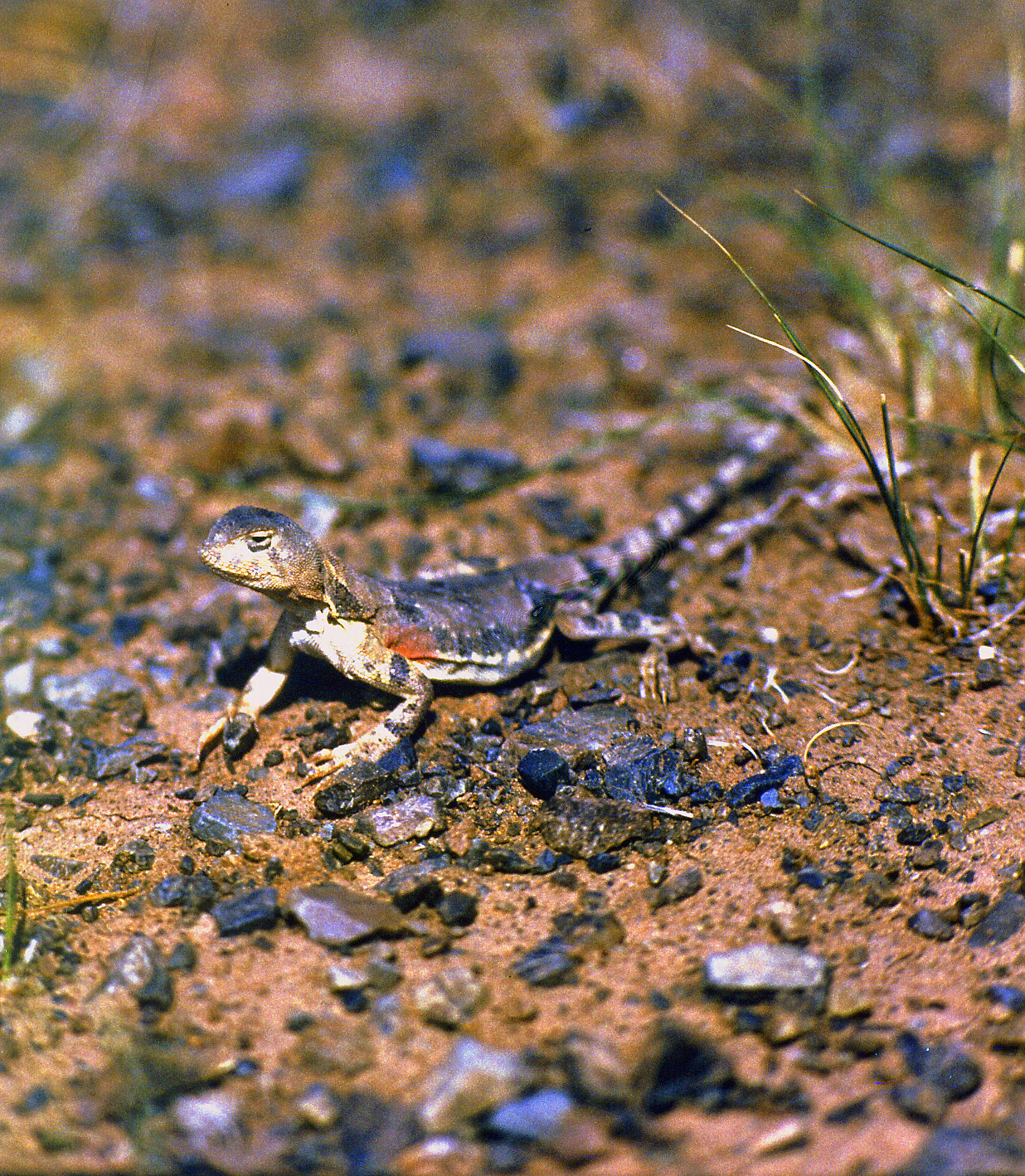 Gobi toad-headed lizard, location Gobi desert.